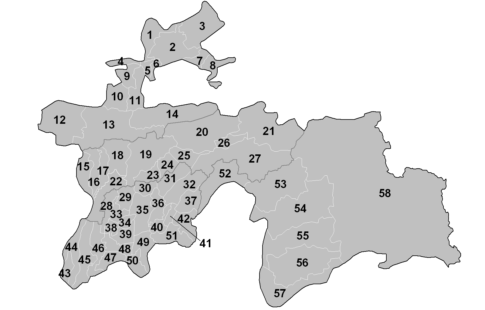 Map of districts of Tajikistan with numbers. Definition of numbers see on Districts of Tajikistan